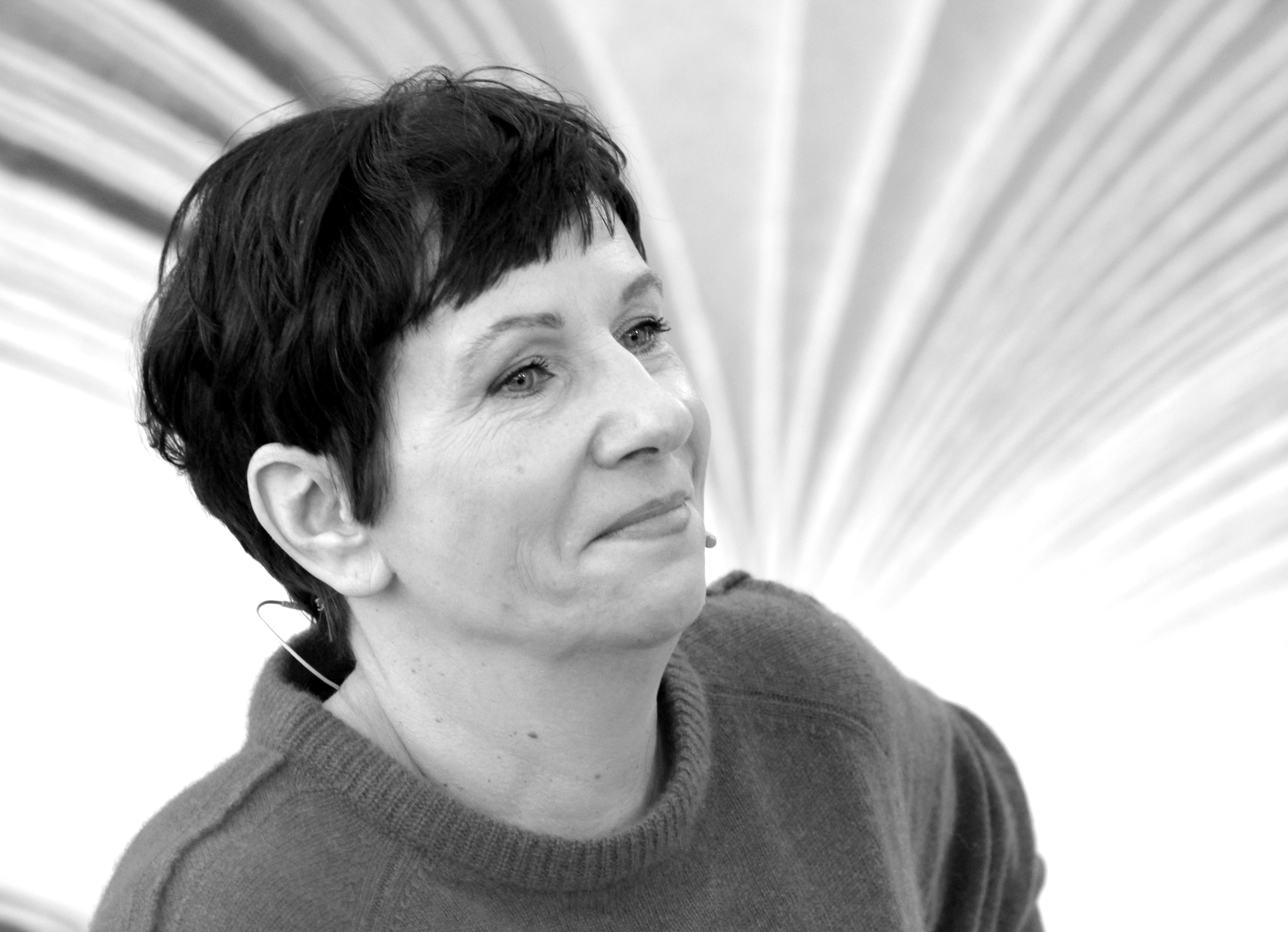 Angelika Klüssendorf Leipzig Book Fair 2018